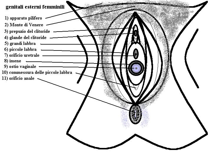 Paint about morphology of the external genital feminine